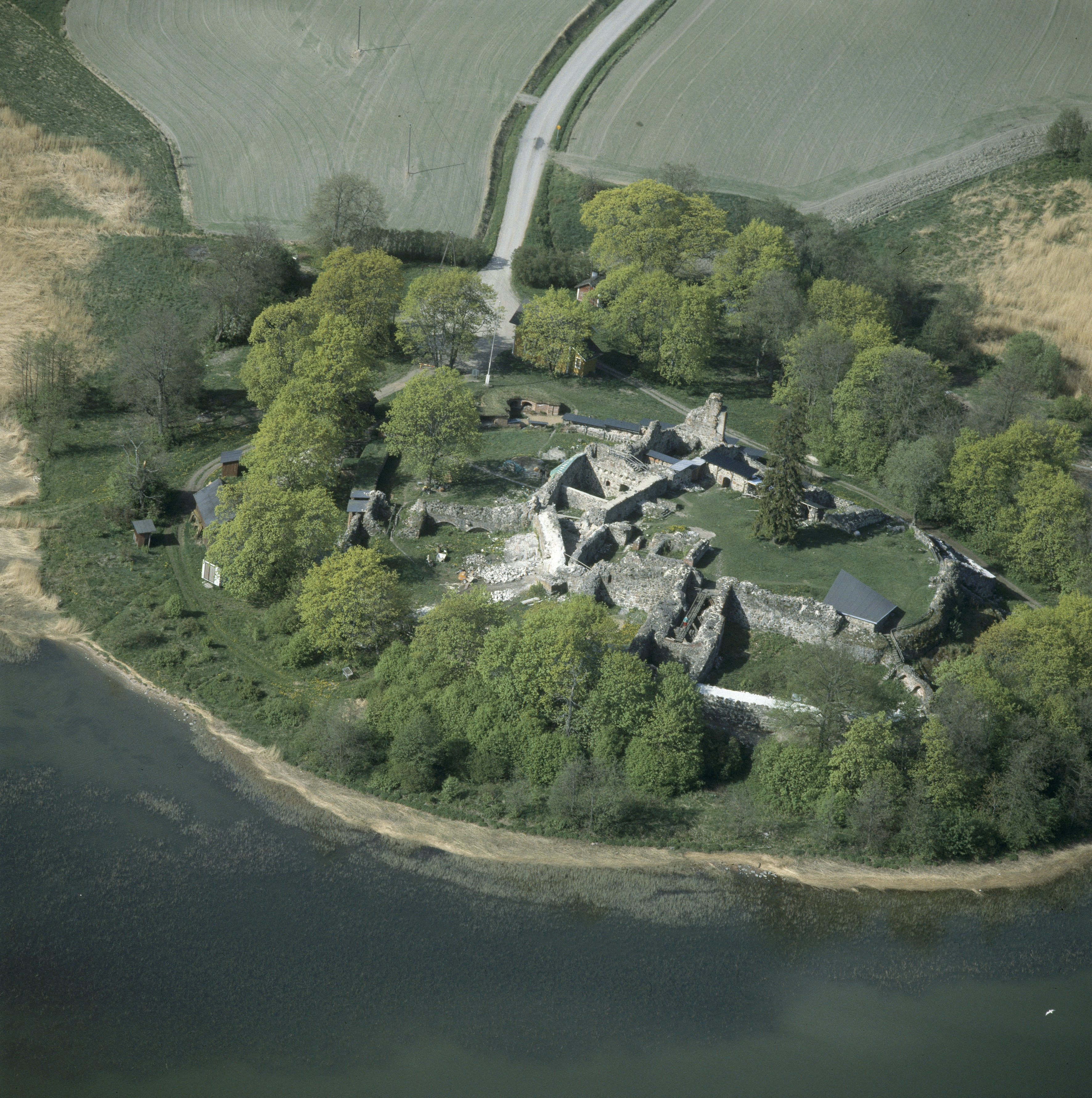 Kuusiston piispanlinnan rauniot, Welin P. O. Museovirasto